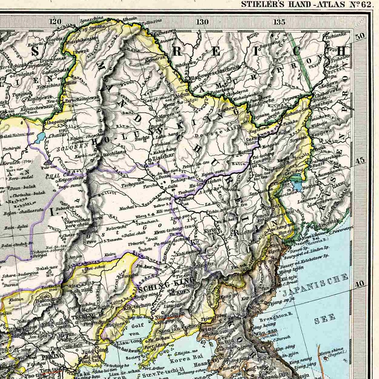 Northeastern corner of the 1892 map of China, for inclusion into articles about Manchuria.